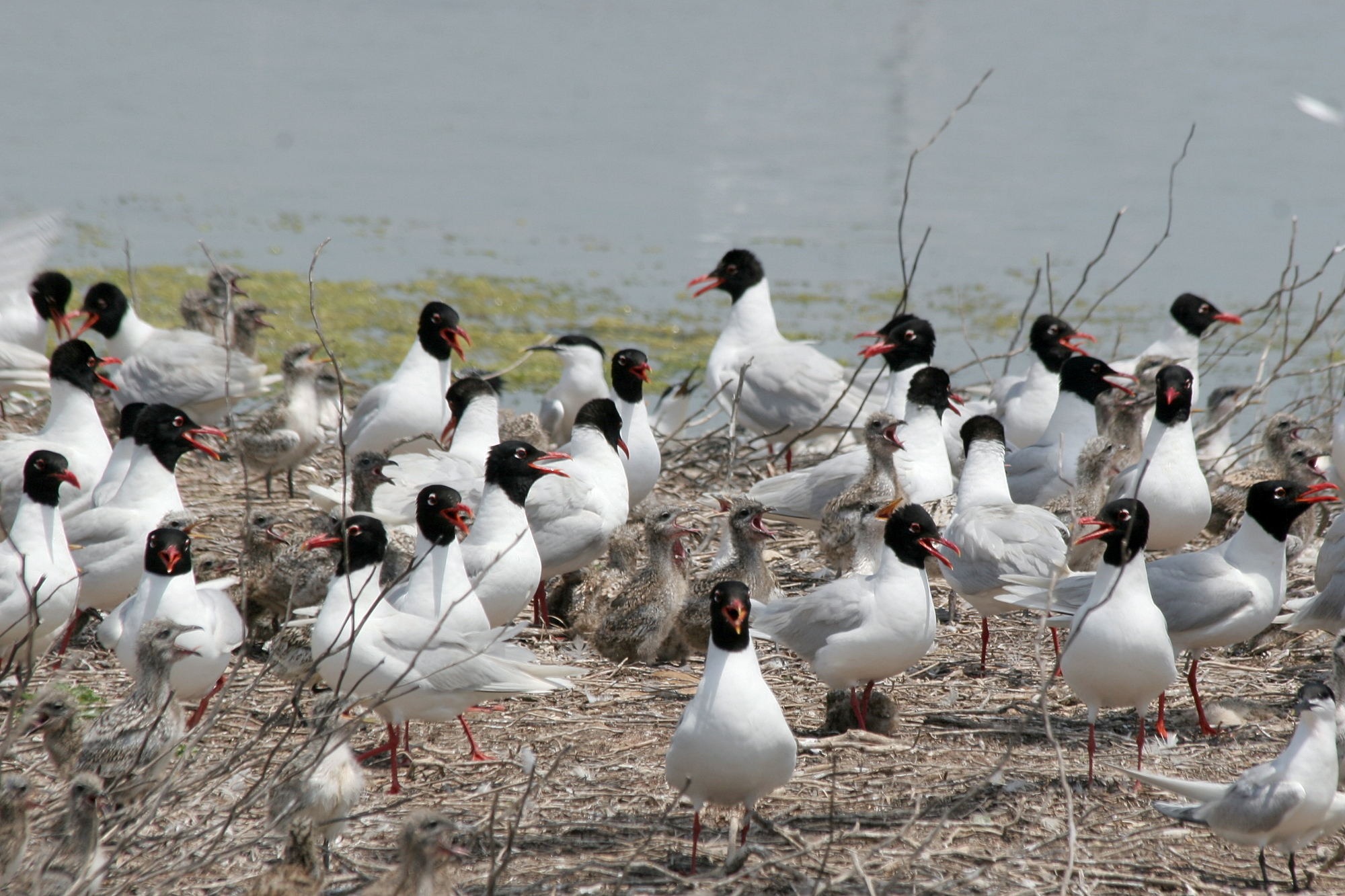 Mediterranean gull Larus melanocephalus (Laridae) with chicks on the Smalenyi island (Tendrivska Bay, Black Sea Biosphere Reserve). The largest breeding colonies of Mediterranean gull in the range of this species is defined for the Black Sea Biosphere Reserve. The number of Mediterranean Gull breeding at the Reserve reaches several tens of thousands of couples.